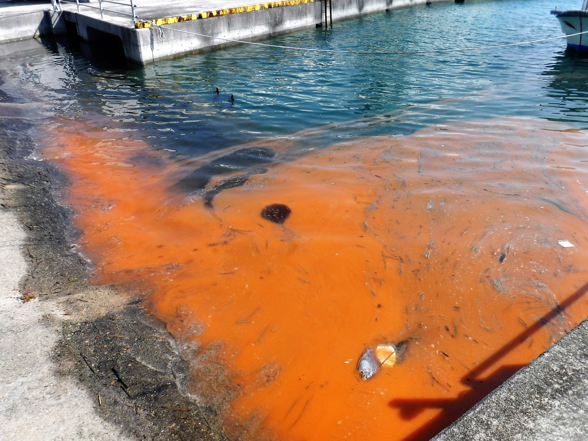 red tide,IWAKI-Harbor, IWAKI-Island, Ehime-pref, JANAN,2017